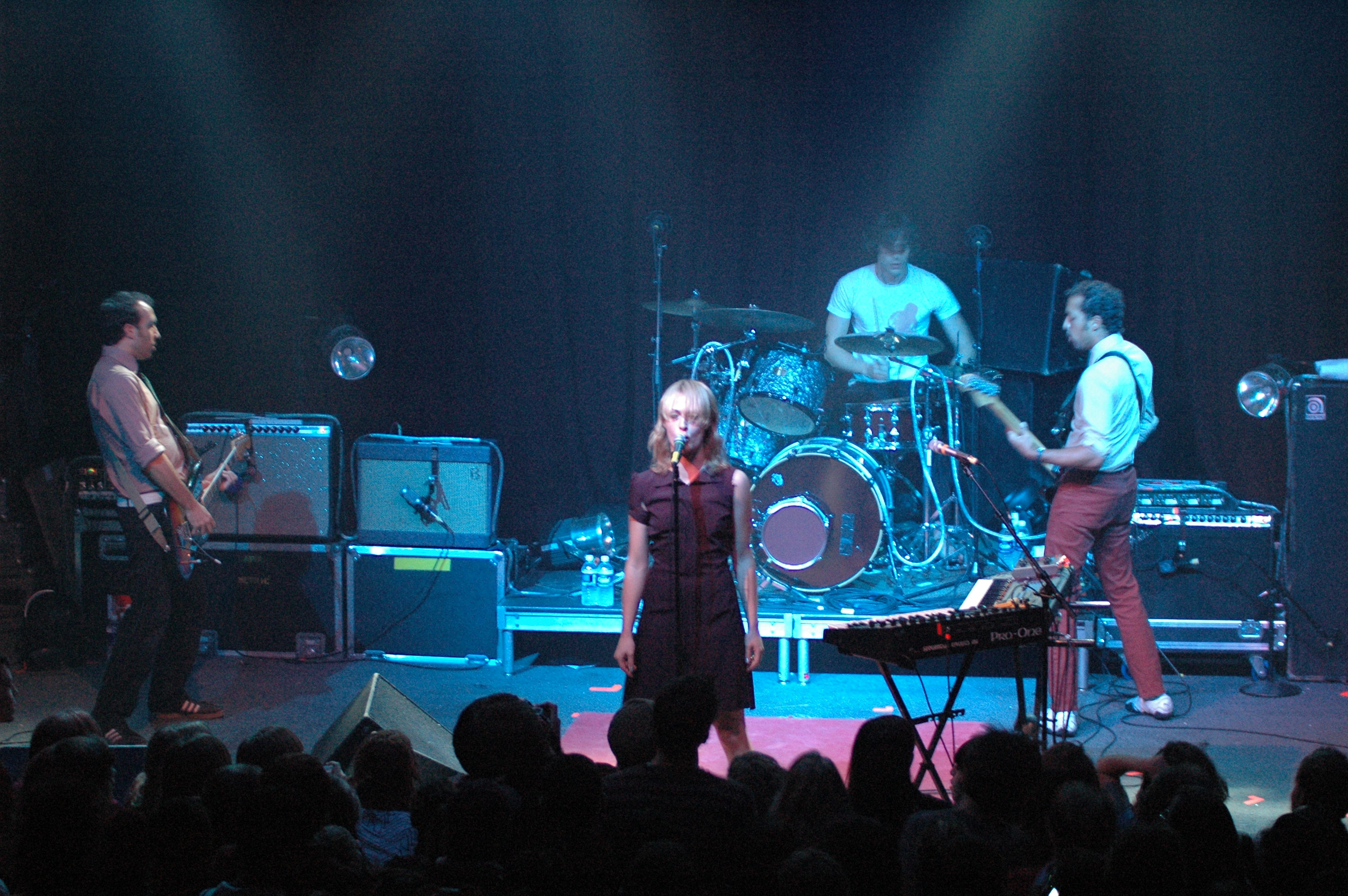 Metric in 2005 (Shaw, Haines, Scott-Key, Winstead)